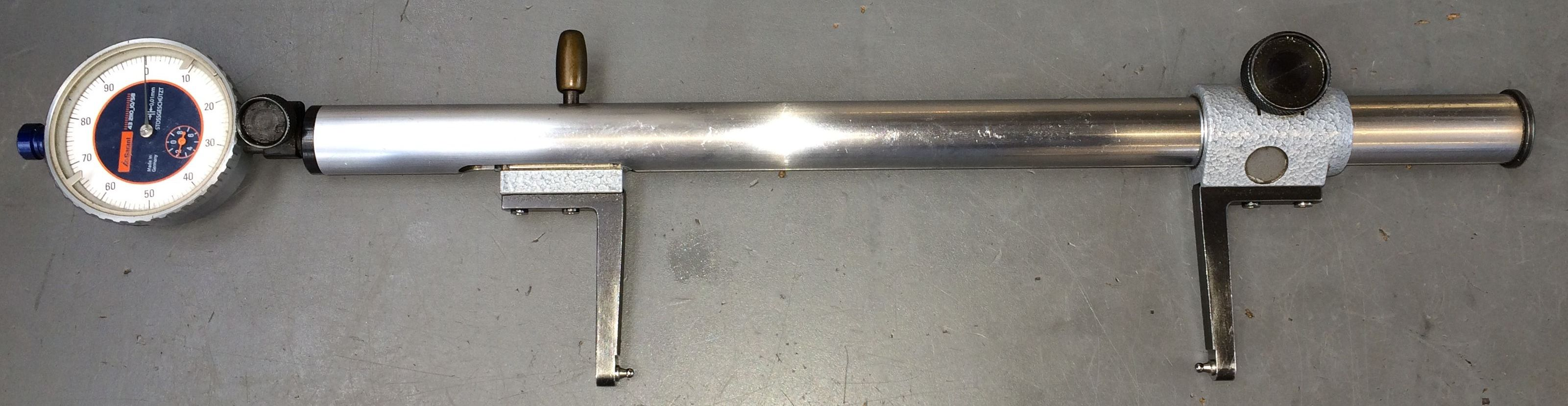 Instrument for gear measurement